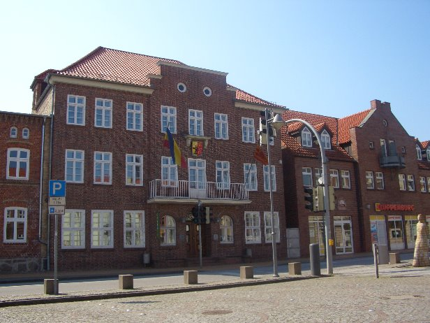 The City Hall of Neukloster, NWM, MV, Germany